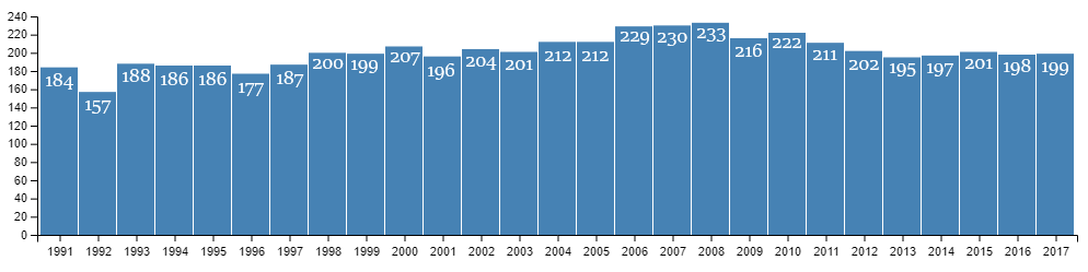 Population of Greenlandic settlement Sermiligaaq in 1991-2017.